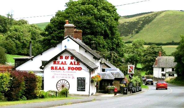 Bend by the pub